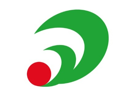 Flag of Akaiwa Okayama